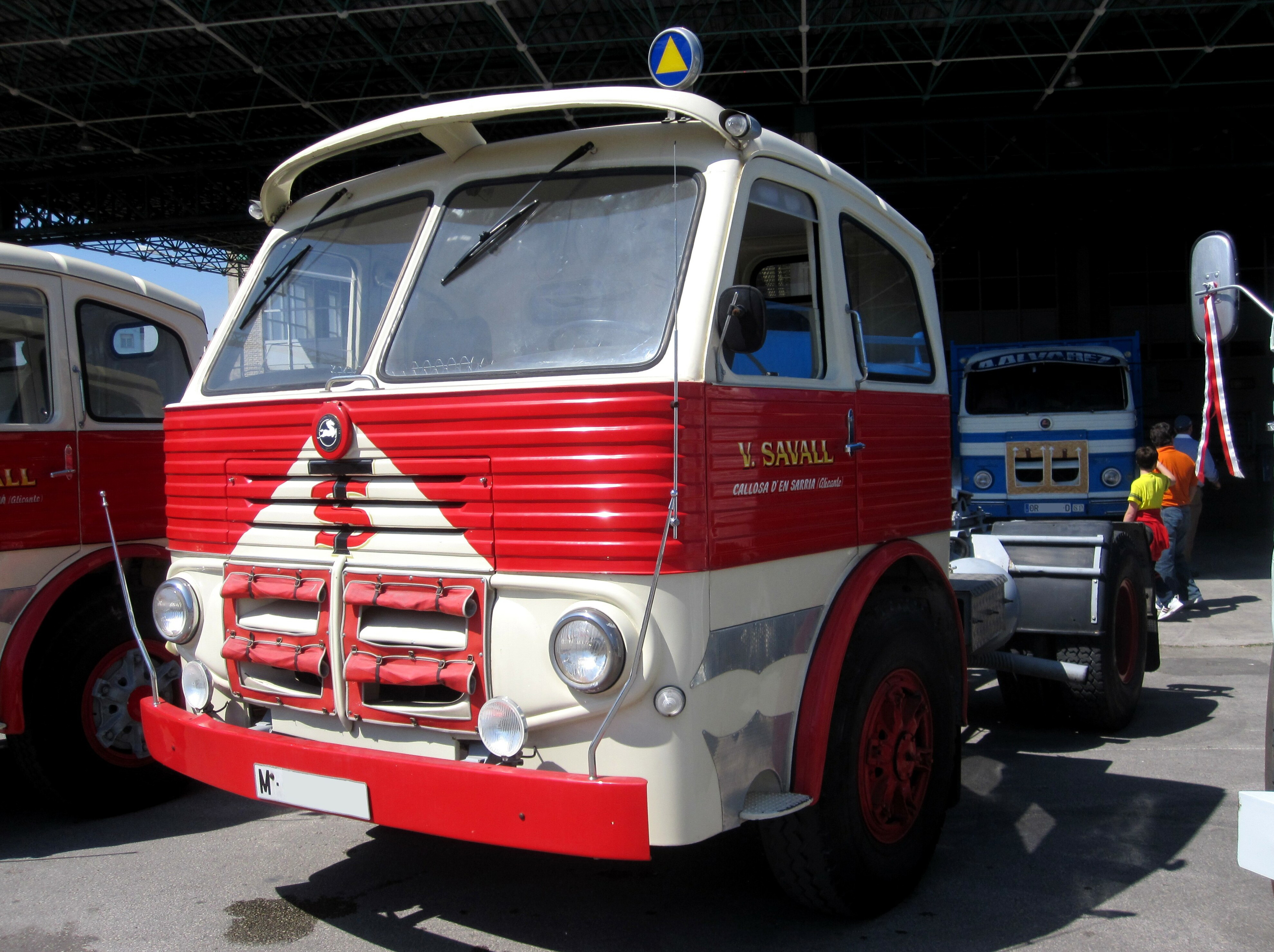 1968 plates from Madrid.